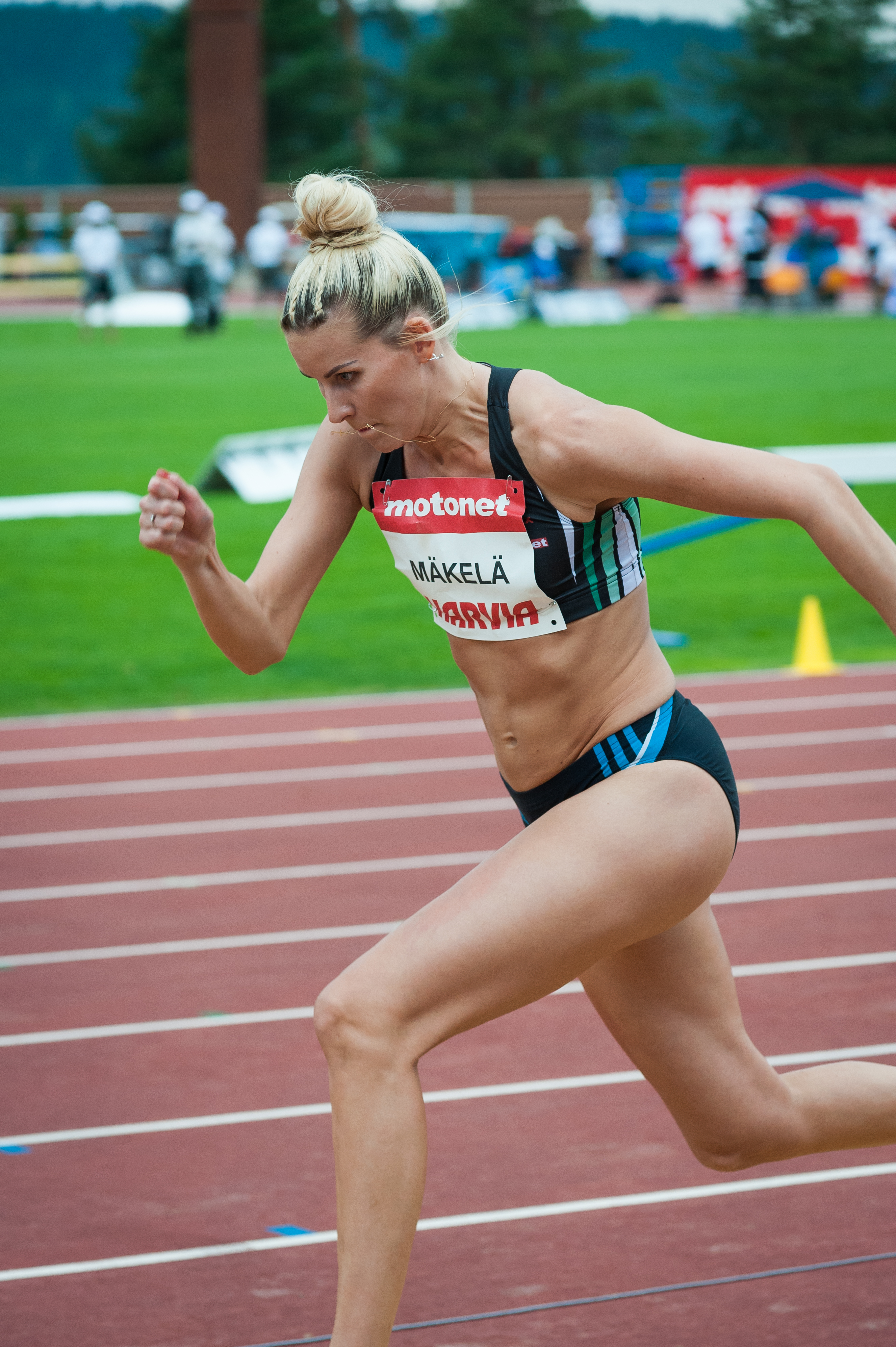 Women's triple jump competition at the 2018 Kalevan Kisat, the Finnish championships in athletics, in Jyväskylä, Finland.